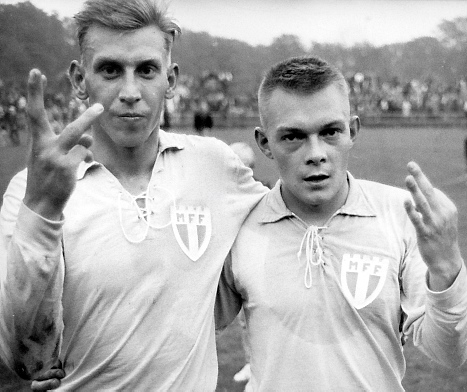 Bosse Larsson and Lars Granström